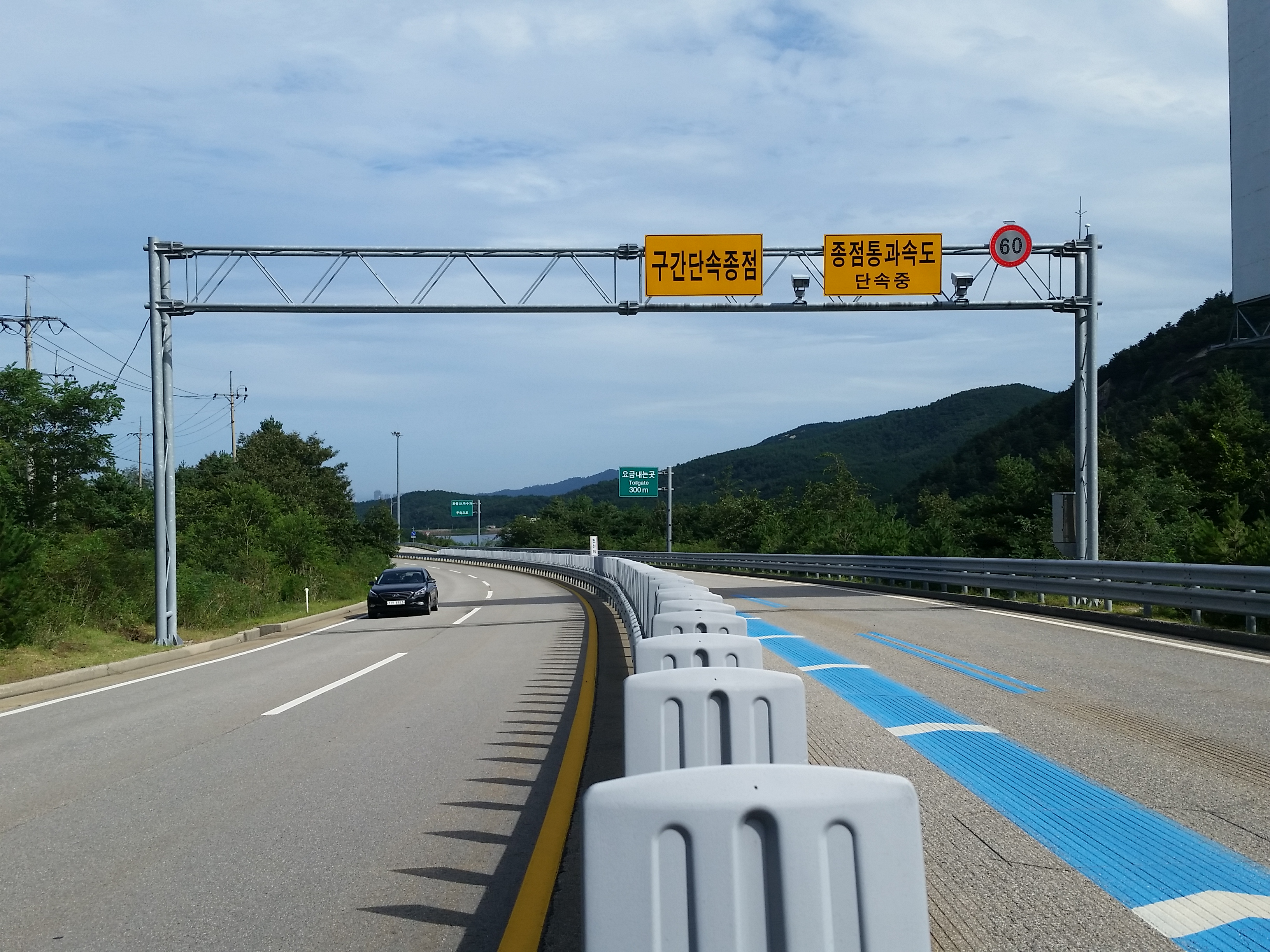 Automated Section Speed Enforcement System installed on Misiryeong Penetrating Road (Misiryeong Tunnel) in Gangwon Province, Korea